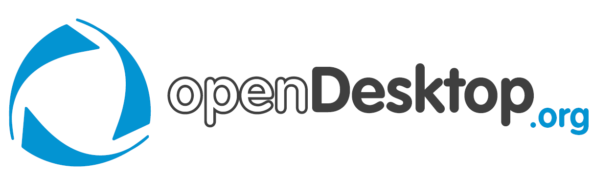 logo